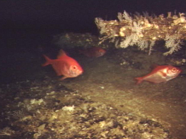 The red bream (Beryx decadactylus).